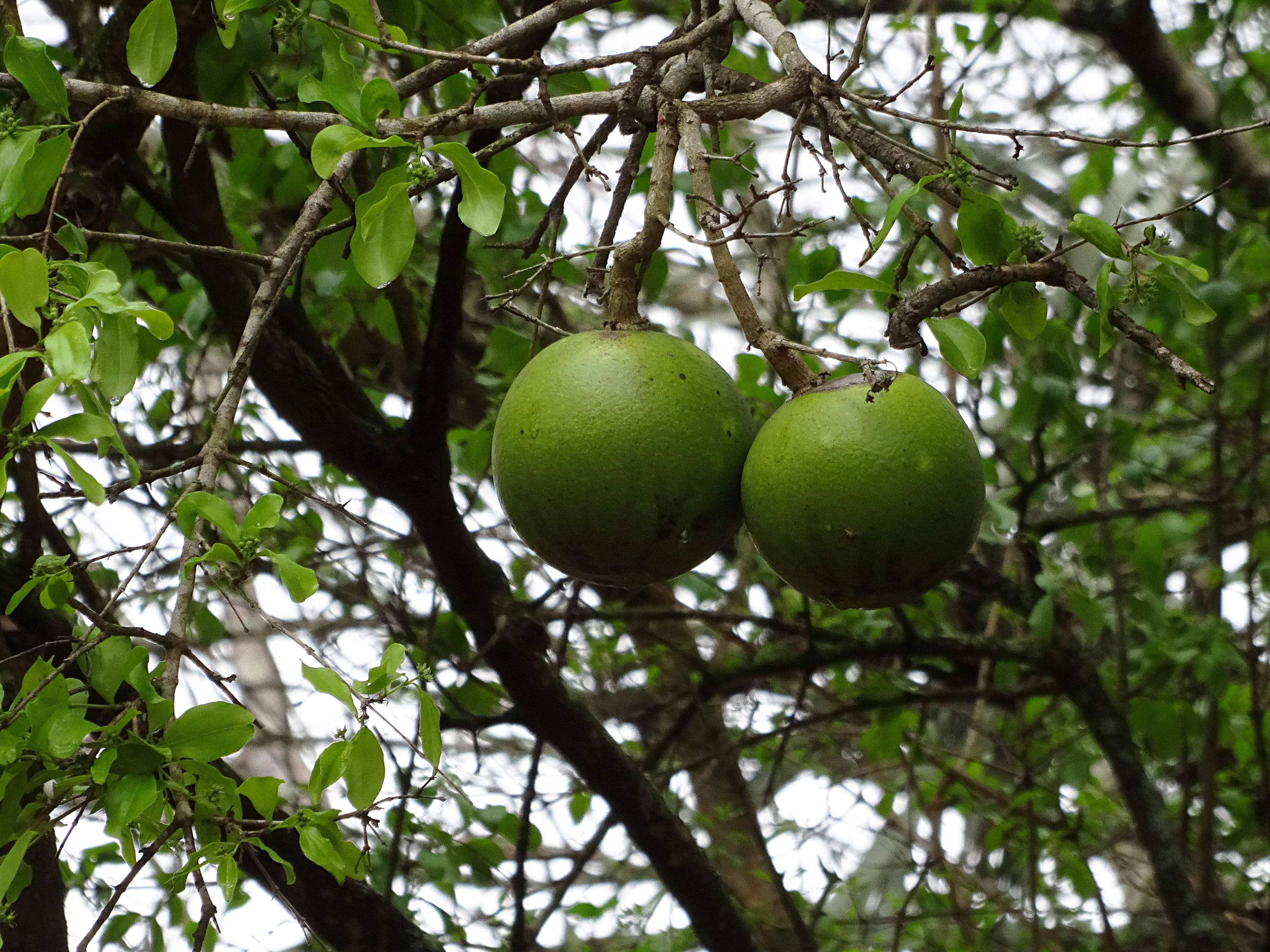 green monkey orange (Strychnos spinosa)